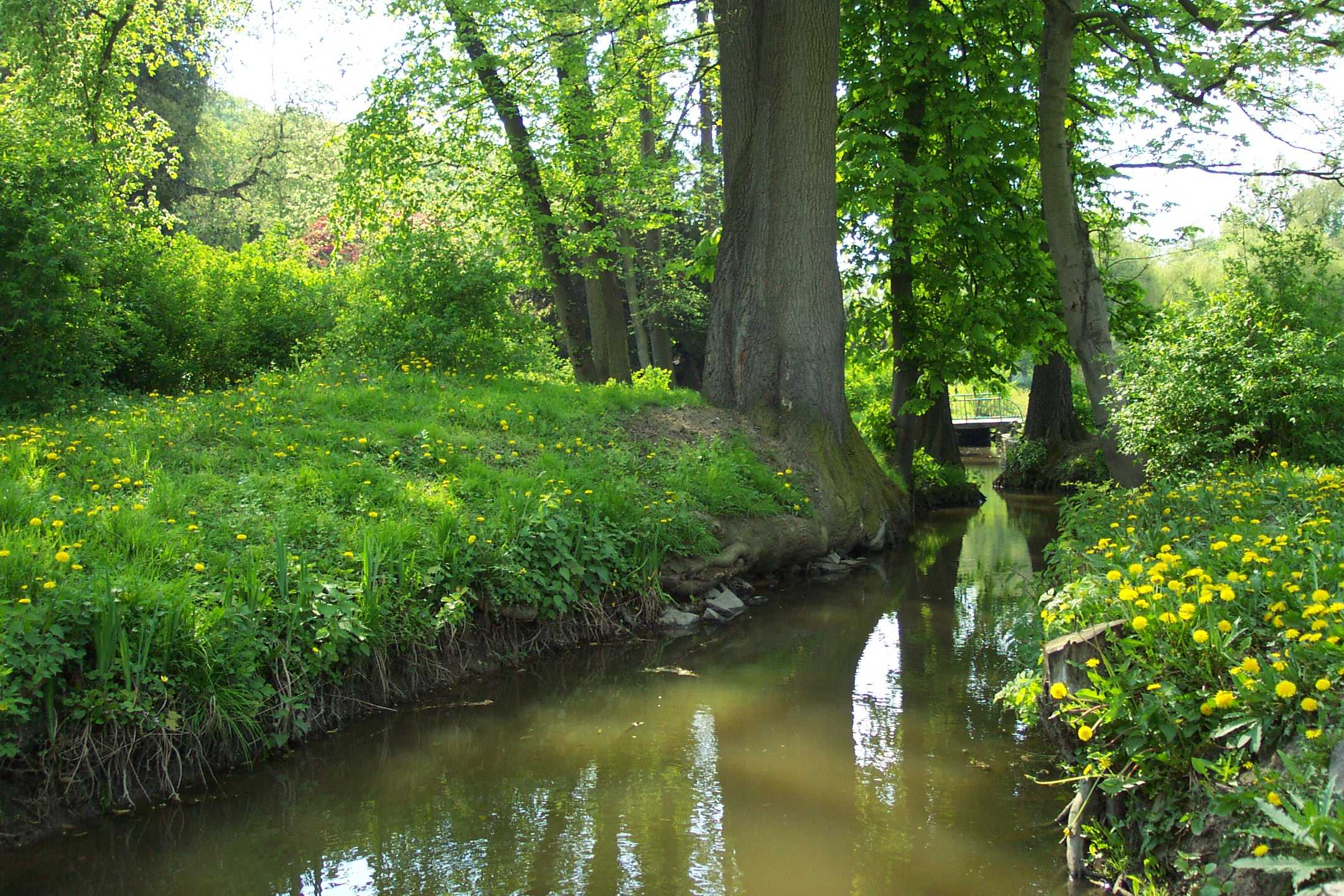 A creek in Prague park Stromovka